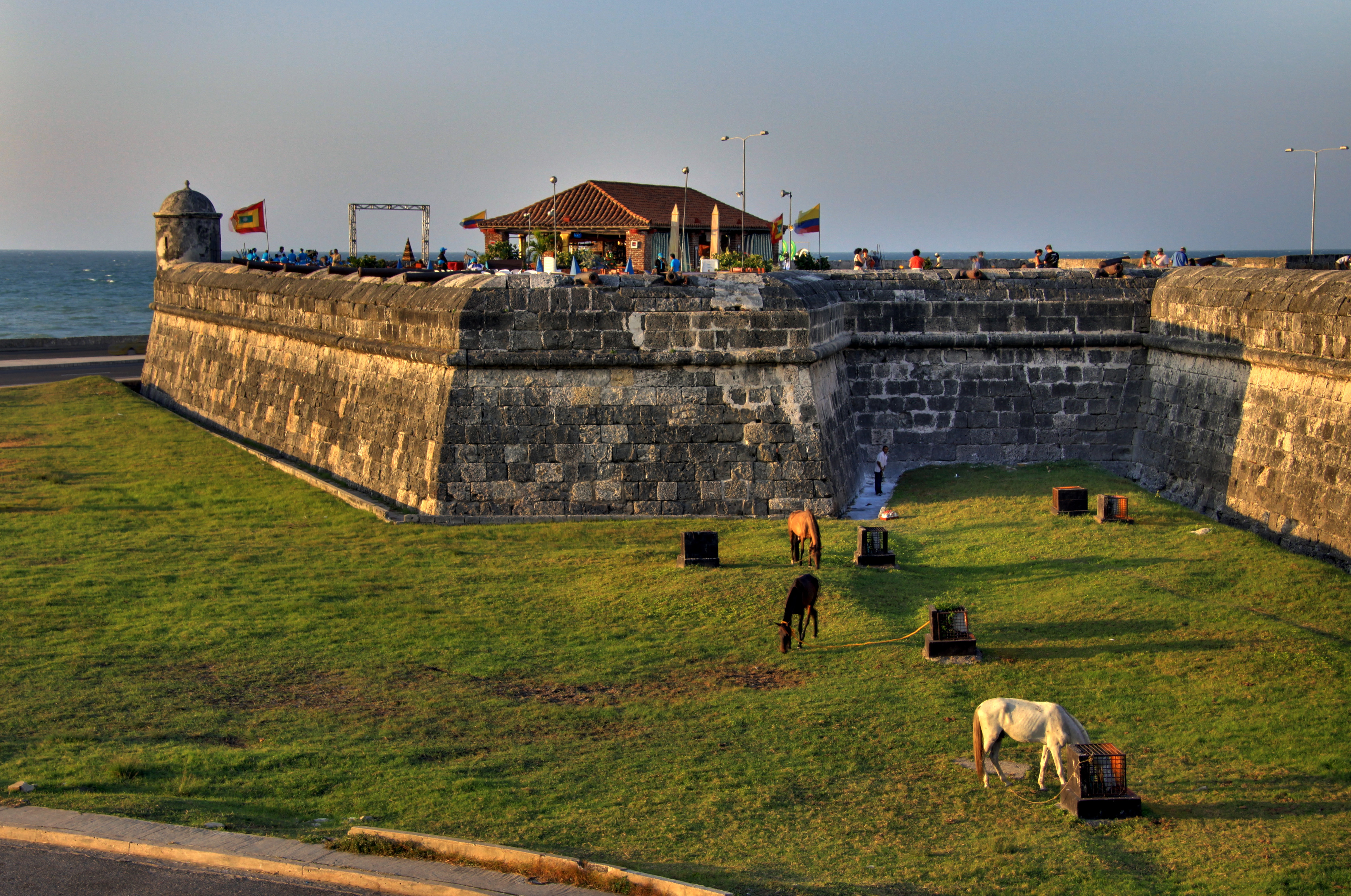 Please, have this description accessible to all by translating it in different languages.